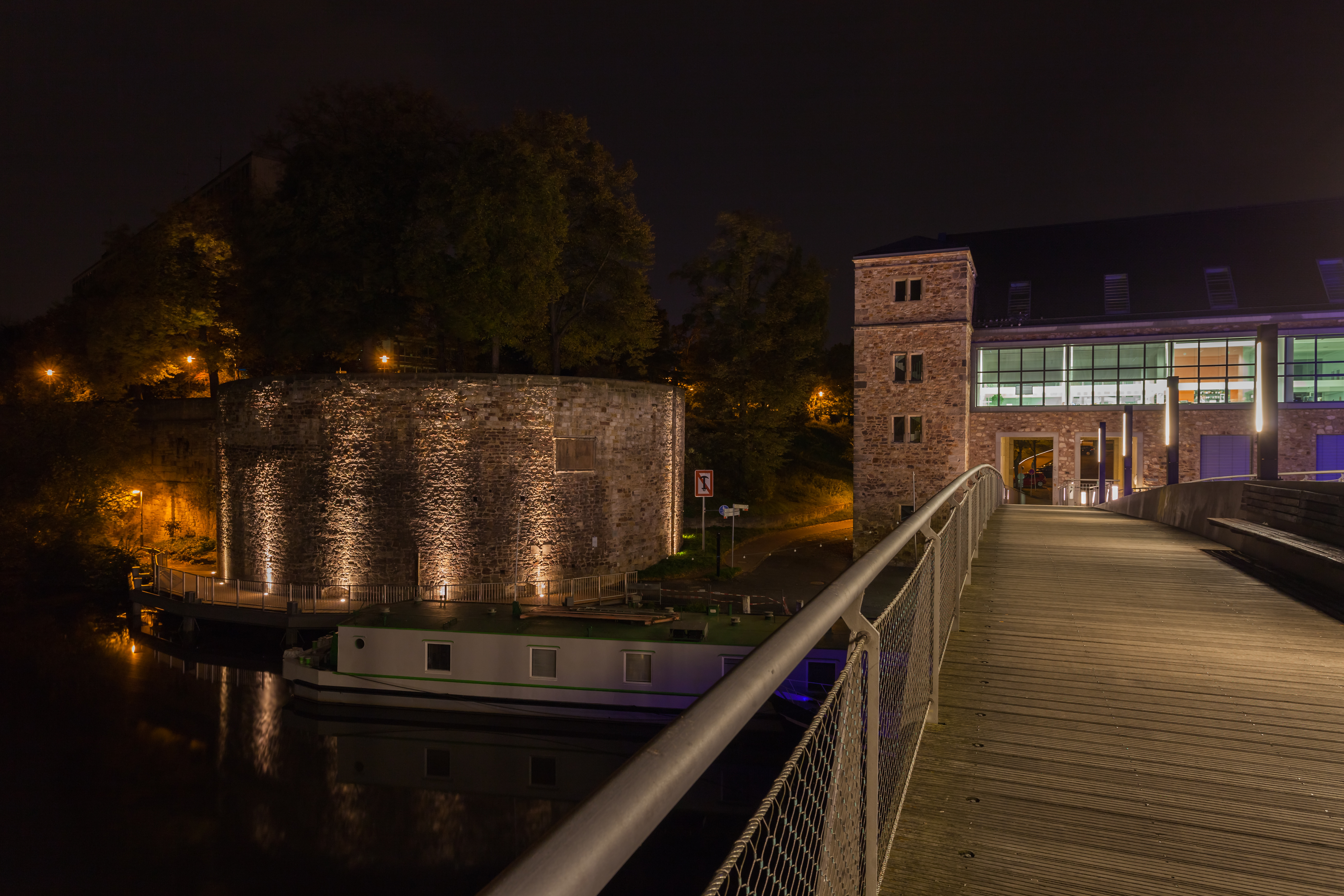 Karl Branner Bridge, Kassel, Germany